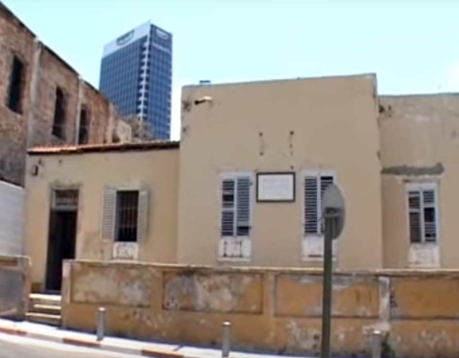 The appearance of the building from the outside